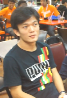 Joseph Kalang Tie at the Jamal Mohammad Restaurant.